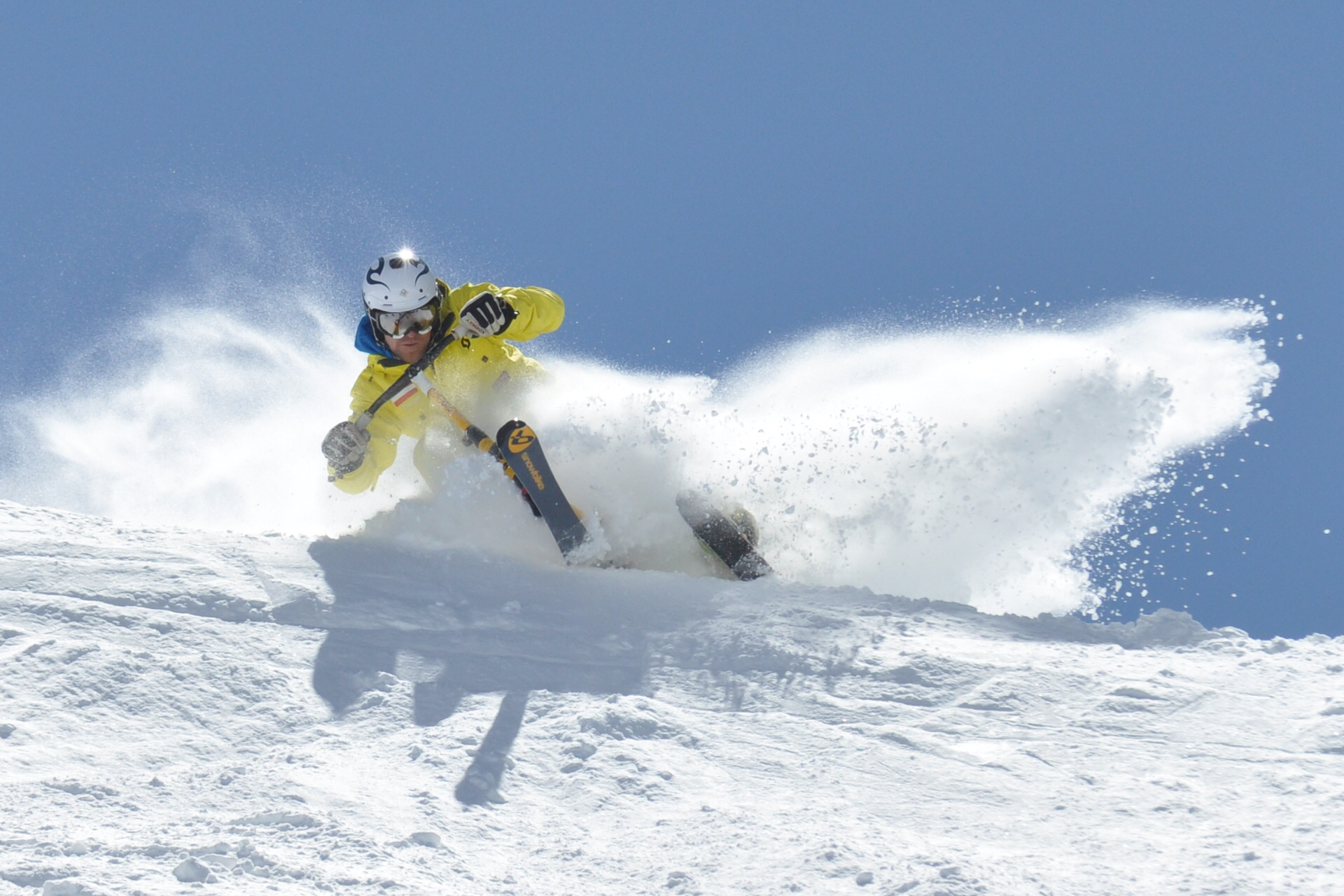 Snowbike in Colroado (Skibob, Skibike, Snowbike)